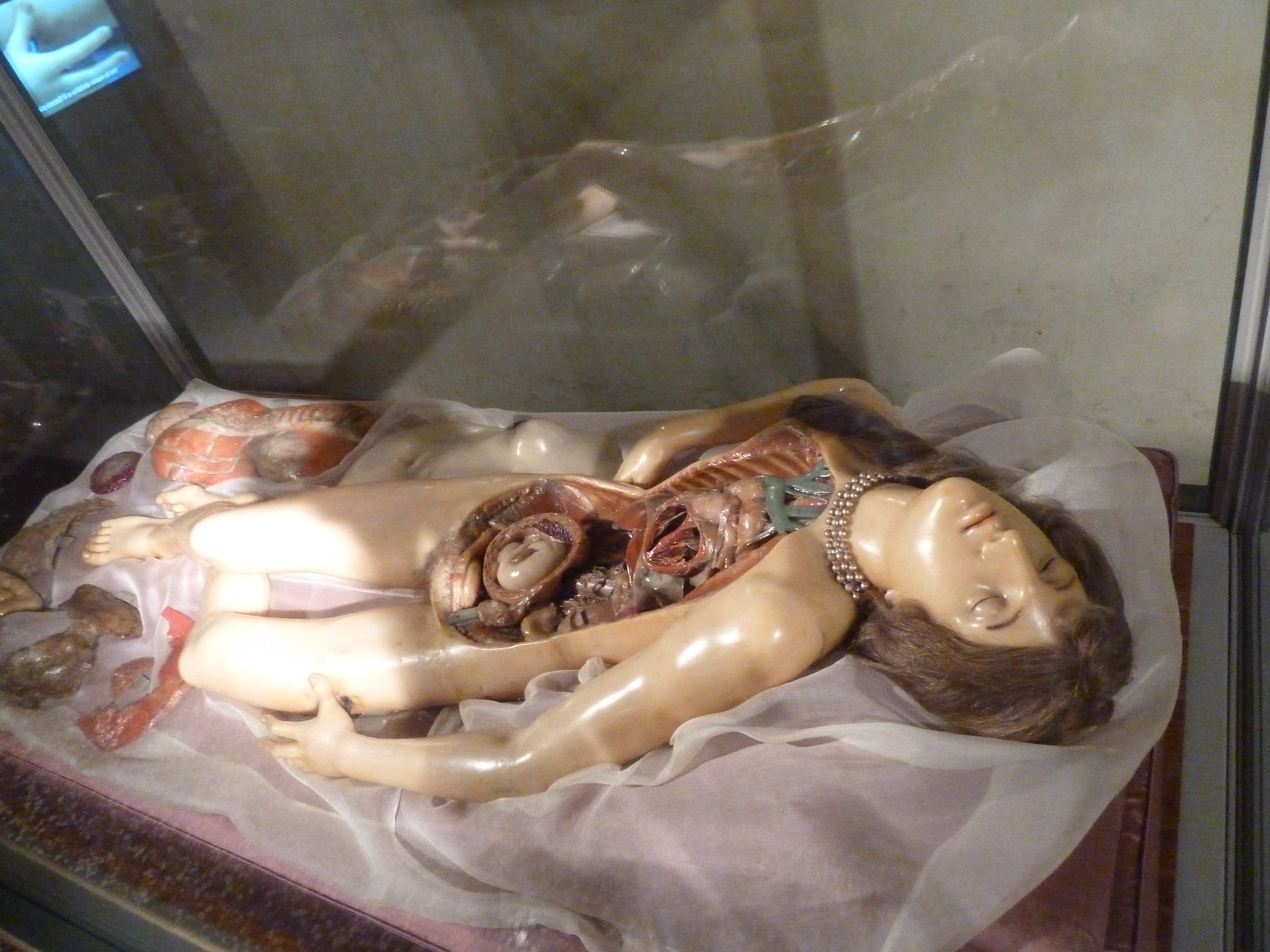 Anatomical models of pregnant women ("Venerina") Palazzo Poggi Native namePalazzo PoggiLocationBolognaEstablishedbetween 1549 and 1560Authority control : Q2949875